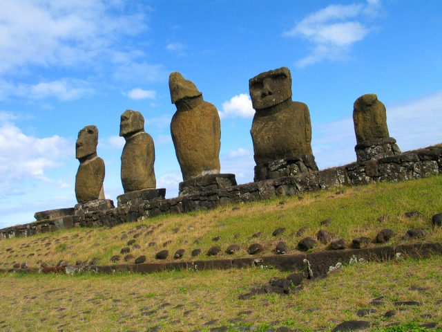 Ahu Vai Uri, Easter Island